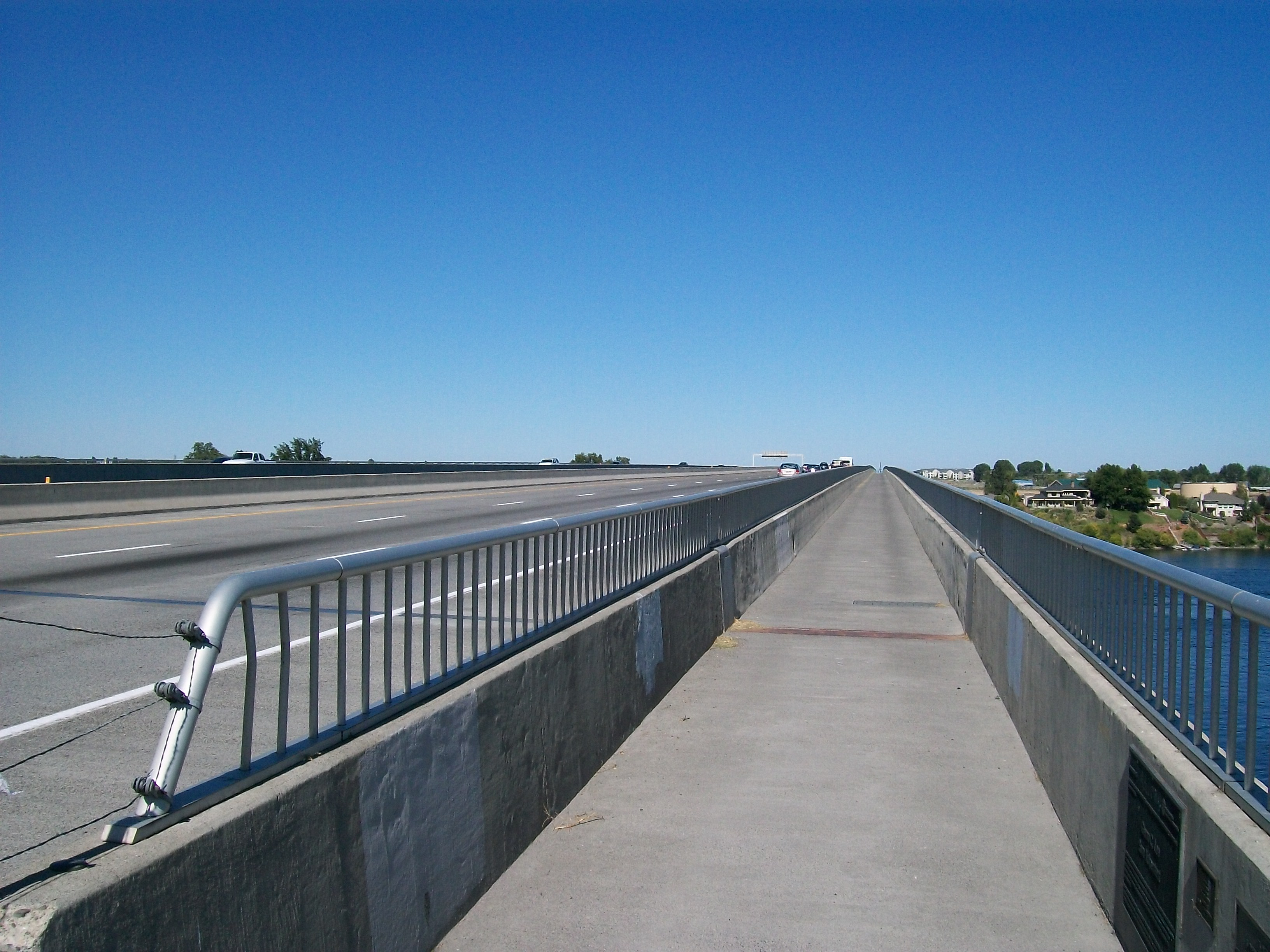 The Lee-Volpentest Bridges on the Pasco side of the Columbia River.